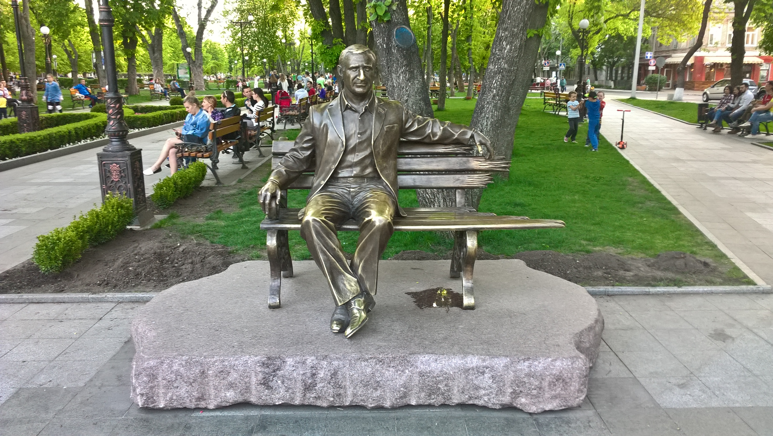 Oleh Babaiev monument